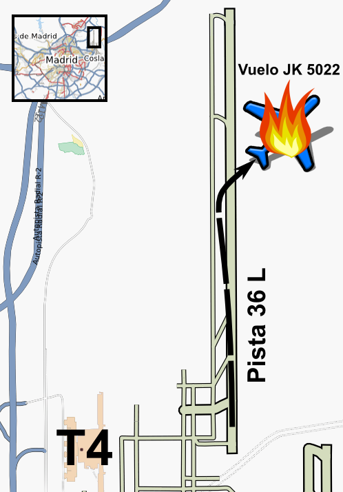 Position of the Spanair Flight JK 5022 crash.